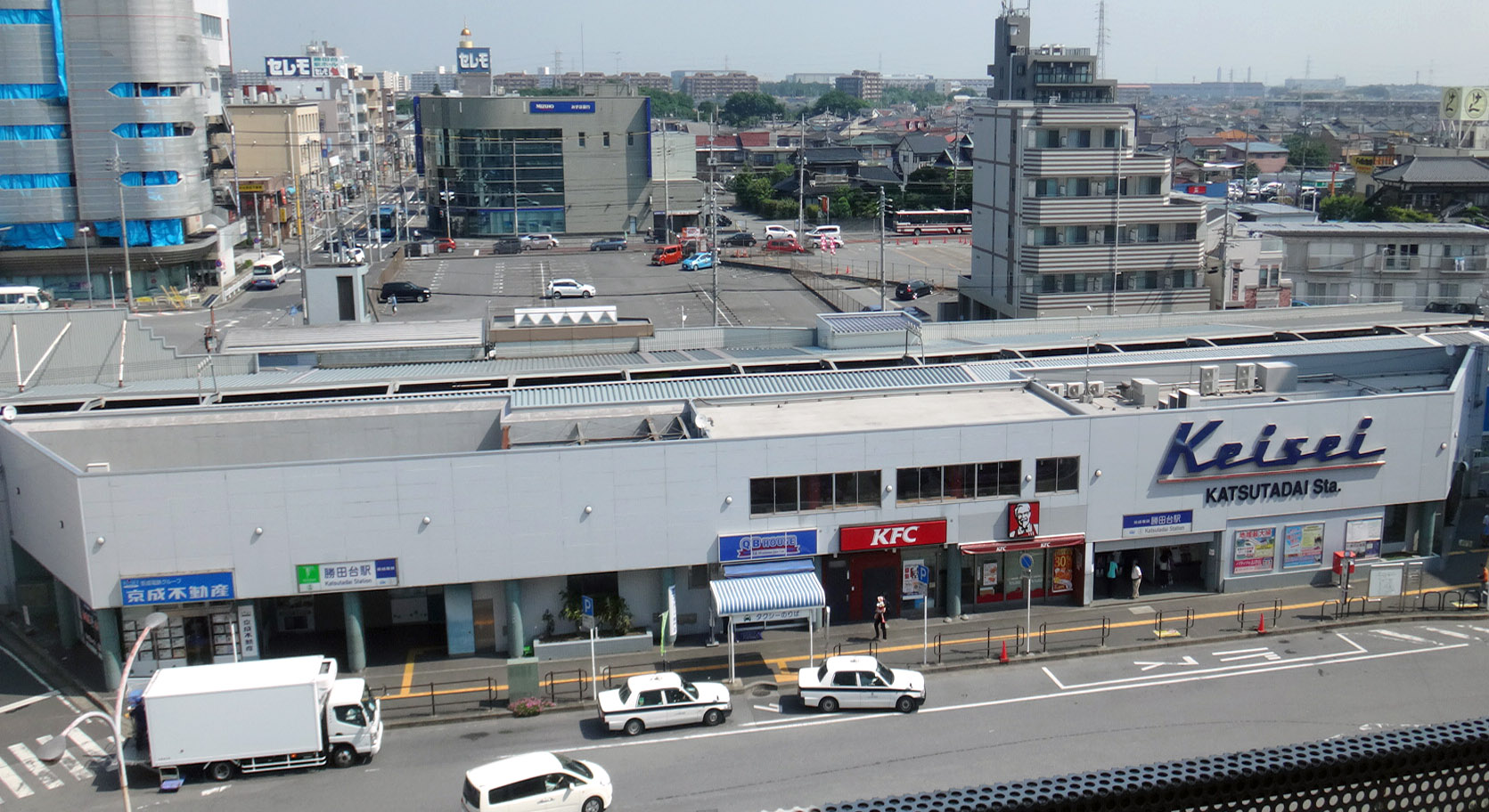 The main station entrance and forecourt for Katsutadai Station (and Toyo-Katsutadai Station) in Chiba Prefecture